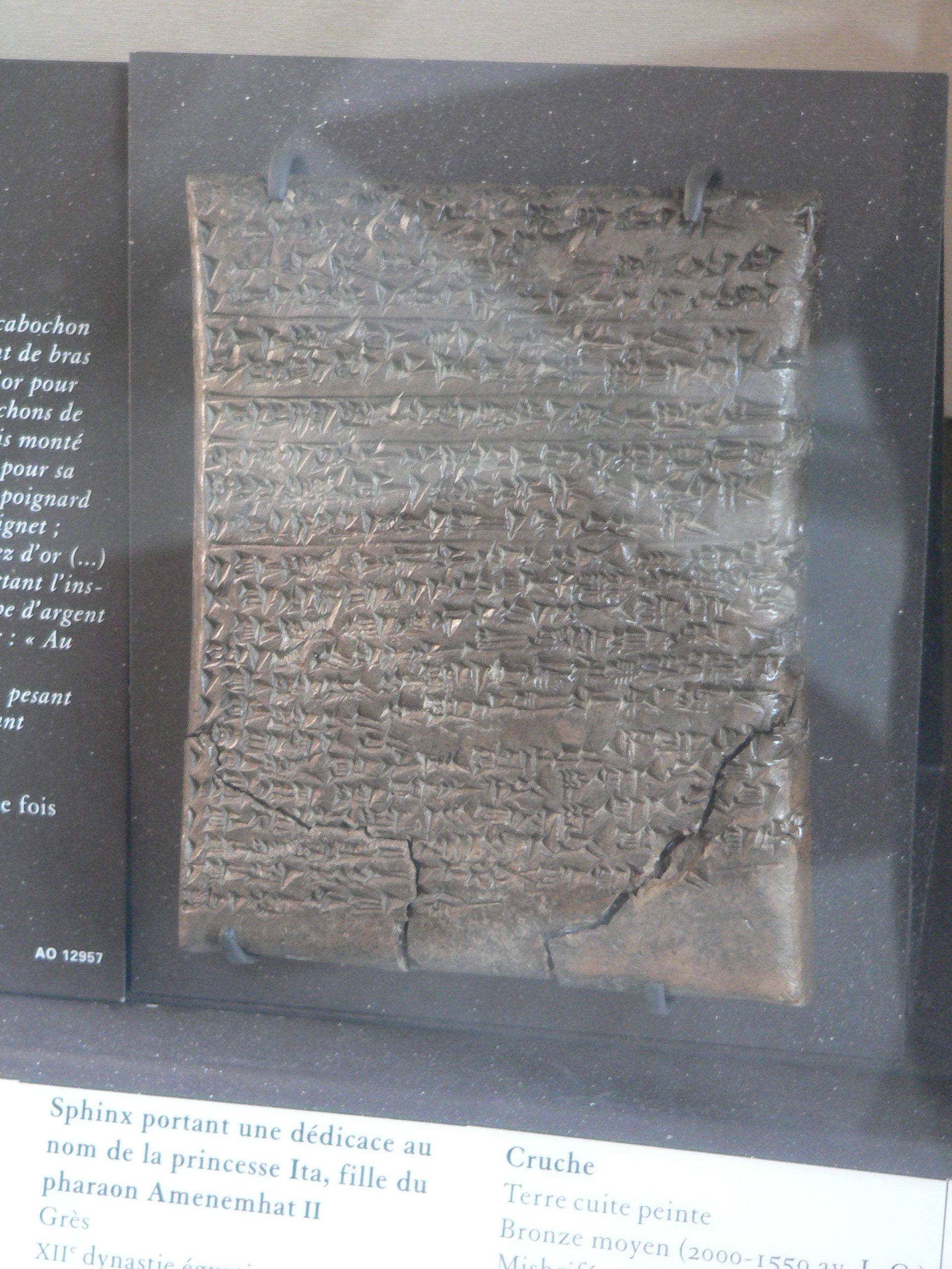 ArtistUnknownDescription Tablet: inventory of the treasure of the "god of the king" Bronze, 15th century BCE Qatna Sacristy of the temple of the goddess Nin-Egal temple Clay Current location (Inventory)Louvre Museum Native nameMusée du LouvreLocationParisCoordinates48° 51′ 37″ N, 2° 20′ 15″ E Established1793Website control : Q19675 VIAF: 257711507 ISNI: 0000 0001 2260 177X ULAN: 500125189 LCCN: n80020283 NLA: 35912436 WorldCat Sully Ground floor Levant Room C Display 6: Qatna (actuelle Mishrifé) IIIe - IIe millénaire avant J.-C.Accession numberAO 12957 ReferencesLouvre.frSource/PhotographerRama Tablet: inventory of the treasure of the "god of the king" Bronze, 15th century BCE Qatna Sacristy of the temple of the goddess Nin-Egal temple Clay